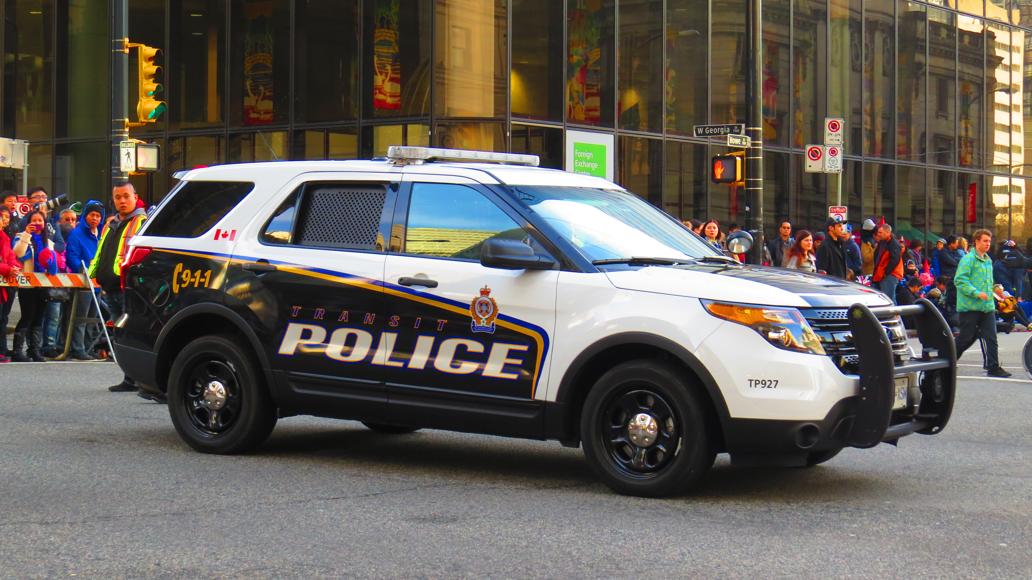 Transit Police new patrol vehicle in 2014 Vancouver Santa Claus Parade